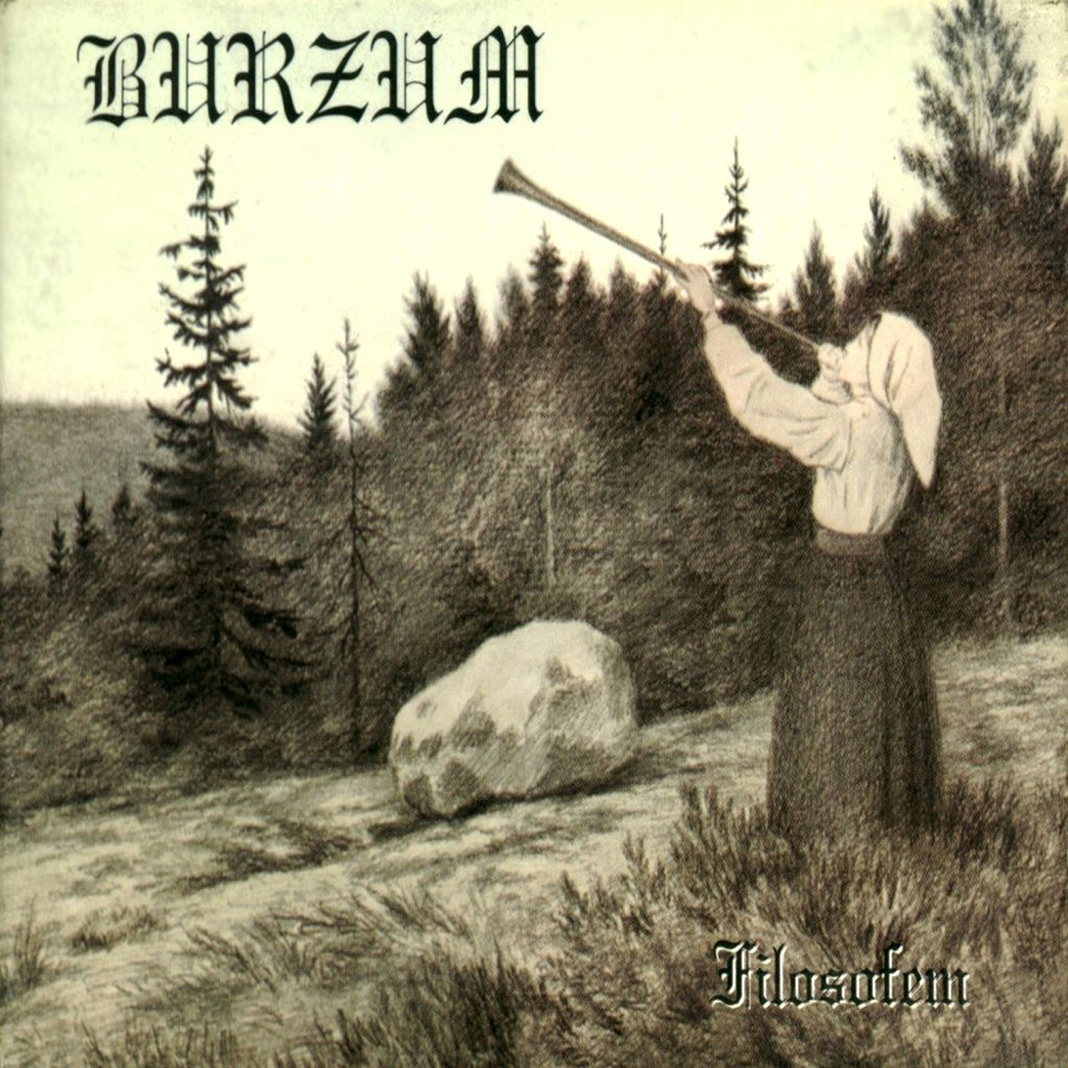 Album cover of Filosofem.